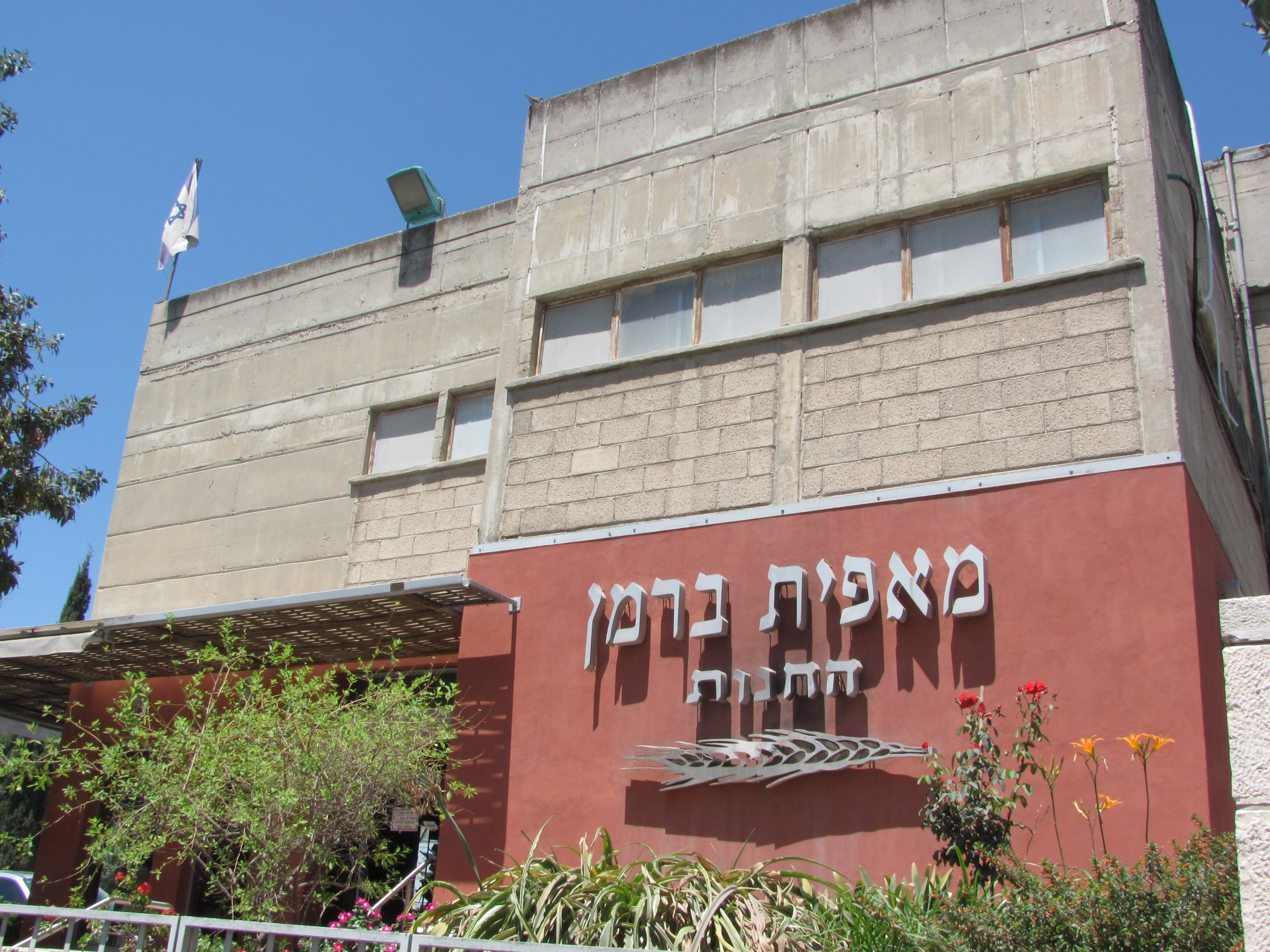 Exterior of Berman's Bakery store at 24 Beit Hadfus, Givat Shaul, Jerusalem. This bread shop and patisserie is adjacent to the company's plant.